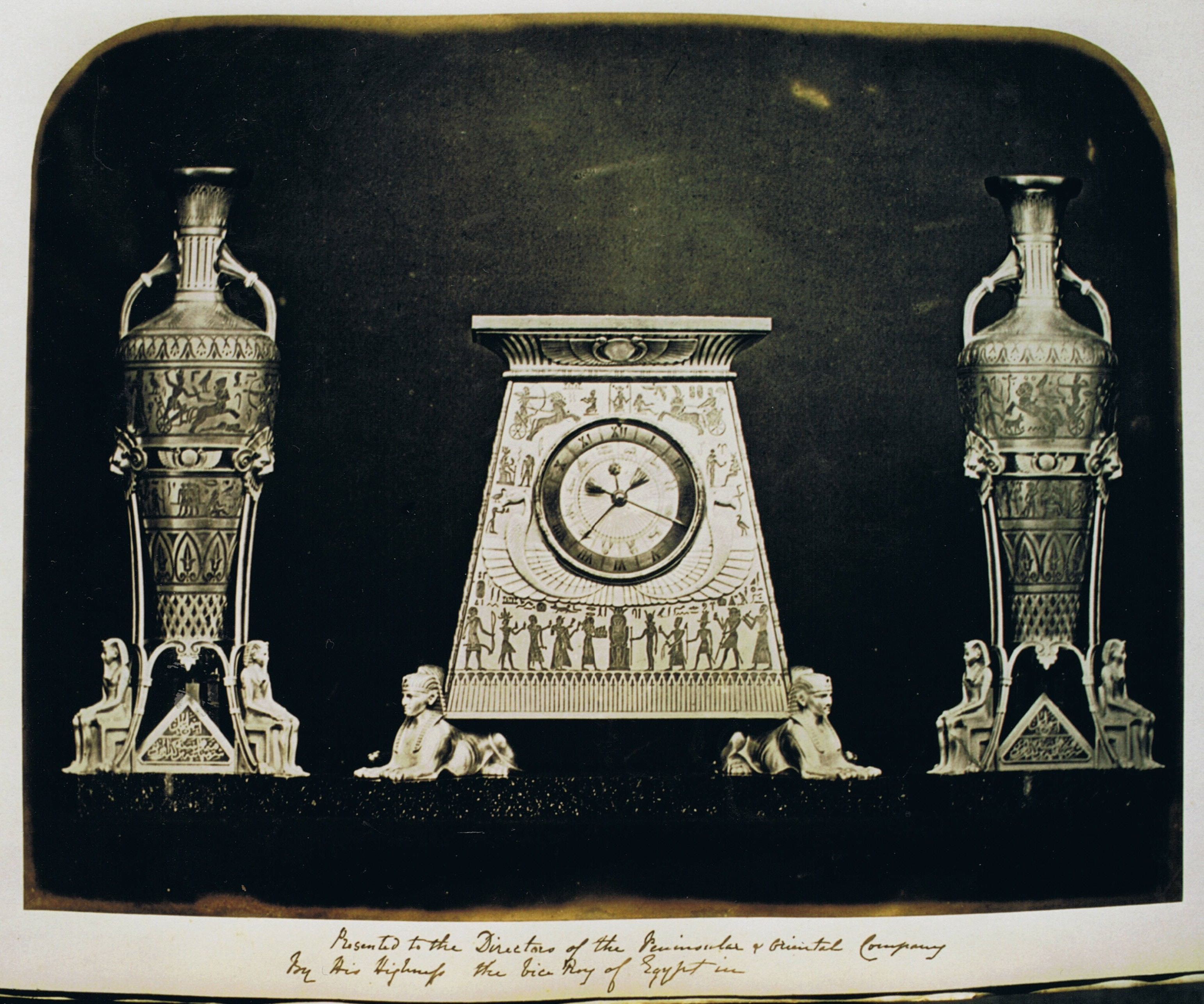 photo (by R. de Salis Oct. 2009) of a photo of the treasure presented to the directors of the P & O by the Vice-Roy of Egypt c.1870Rodolph (talk) 14:35, 24 November 2009 (UTC)